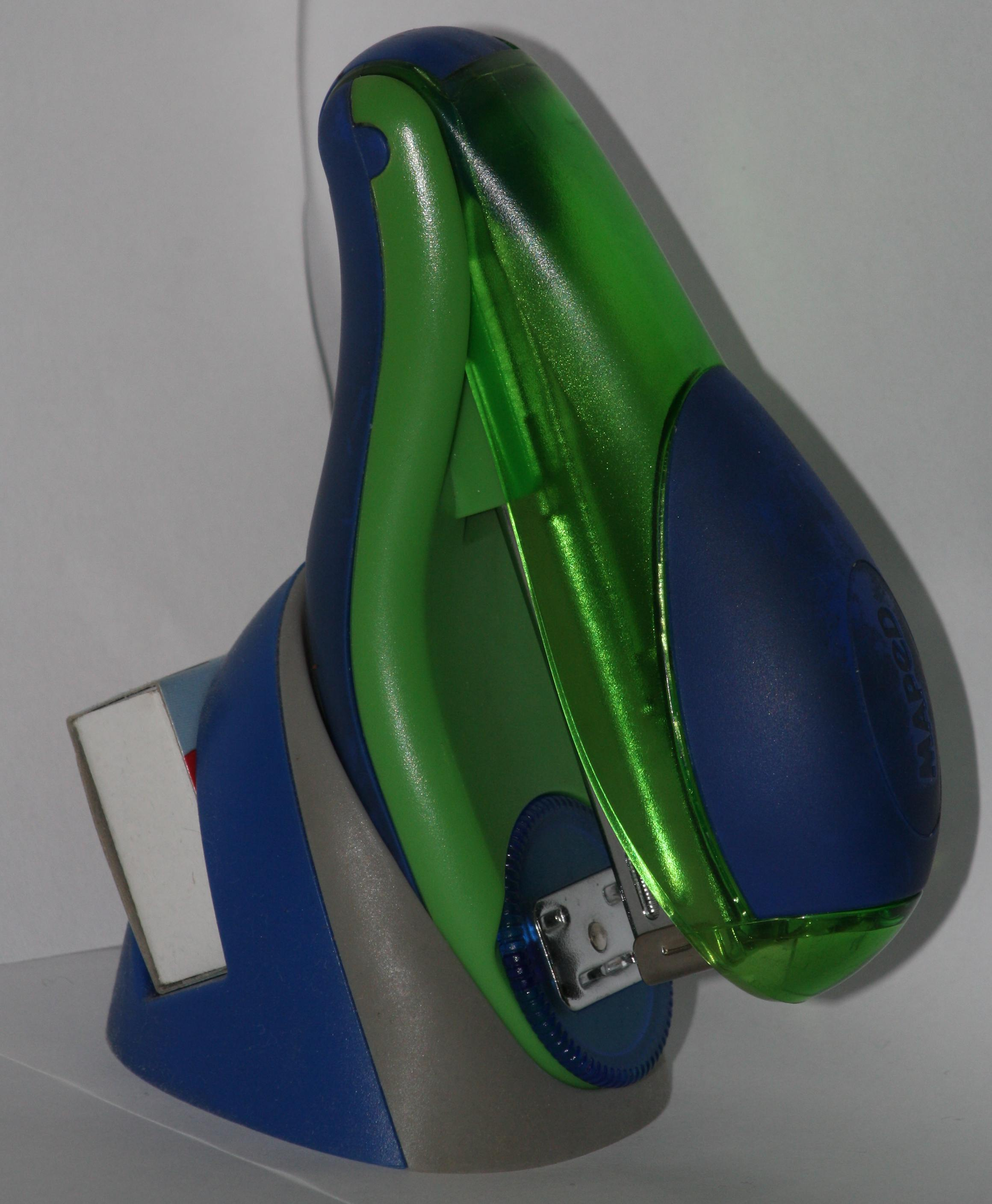 Maped metal stapler.